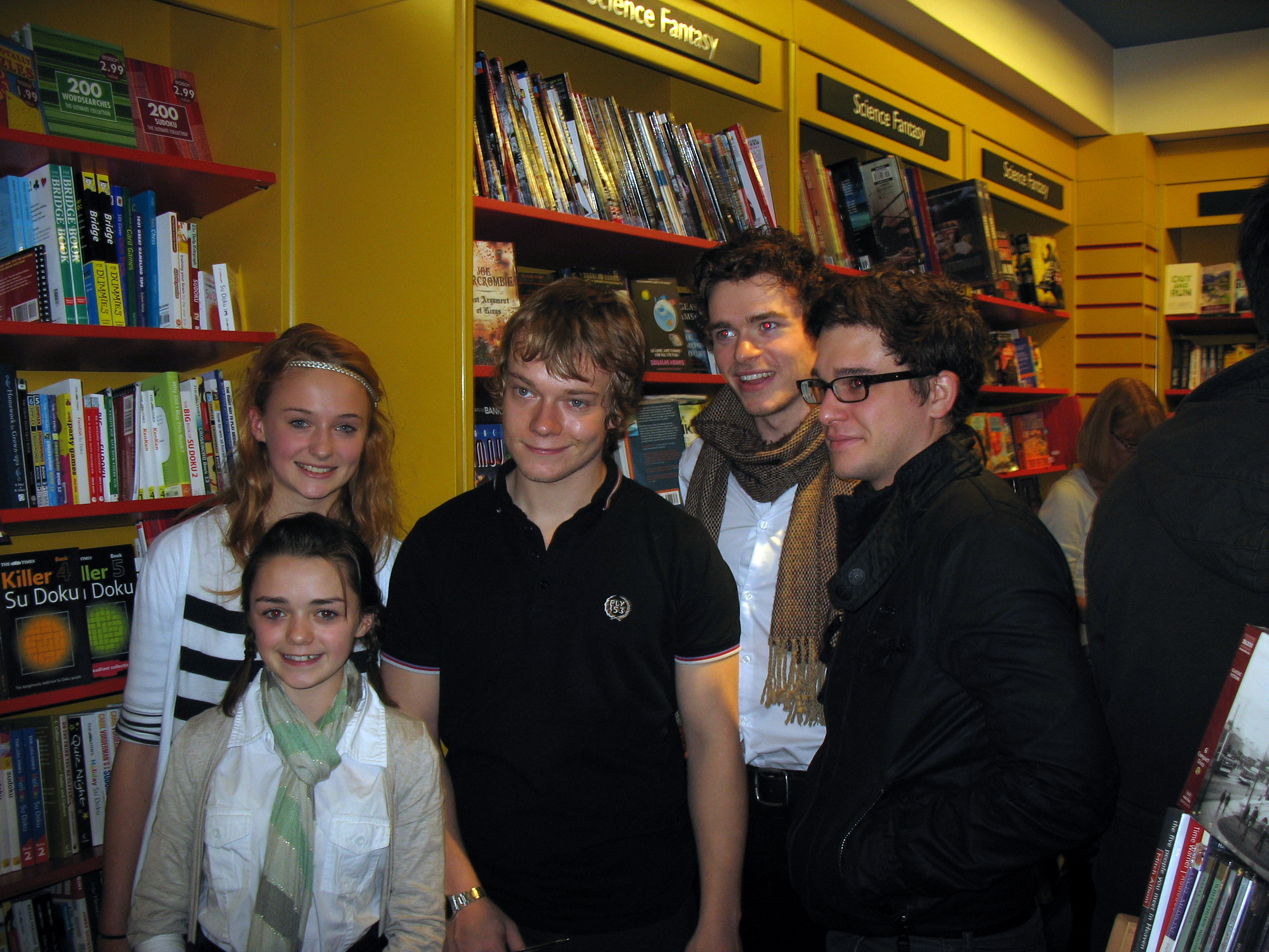 Maisie Williams, Sophie Turner, Alfie Allen, Richard Madden and Kit Harington (The Winterfell house hold) at the GRRM Easons Book signing Belfast 3rd Nov 2009, which was followed by an evening event called Moot 1 organised by the Brotherhood Without Banners (ASoIAF fandom).